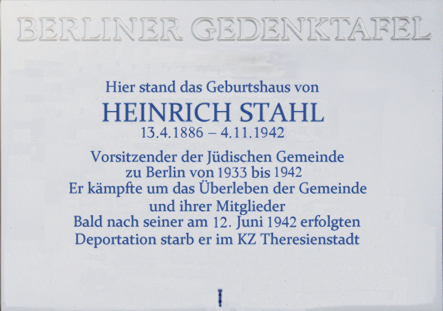 Berlin memorial plaque, Heinrich Stahl, Alt-Rudow 41, Berlin-Rudow, Germany